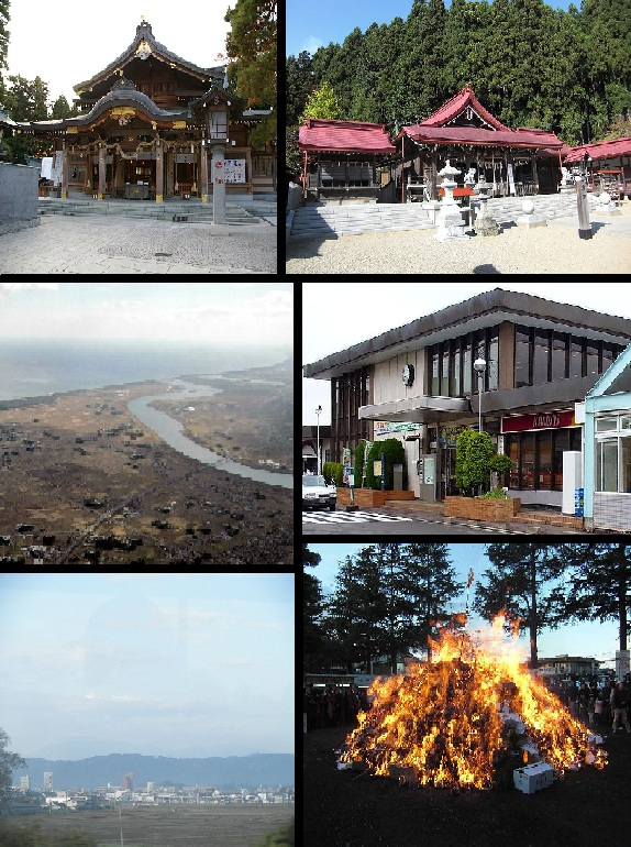 Iwanuma montarge